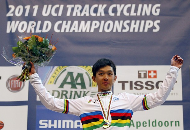 Kwok Ho Ting of Hong Kong celebrates his Gold during the medal ceremony of the Men's 15 km Point race final at the UCI Track Cycling World Championships in Apeldoorn March 23, 2011.